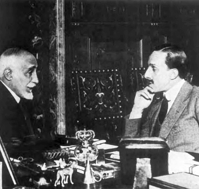 Spanish king Alfons XIII with Prime Minister Antonio Maura